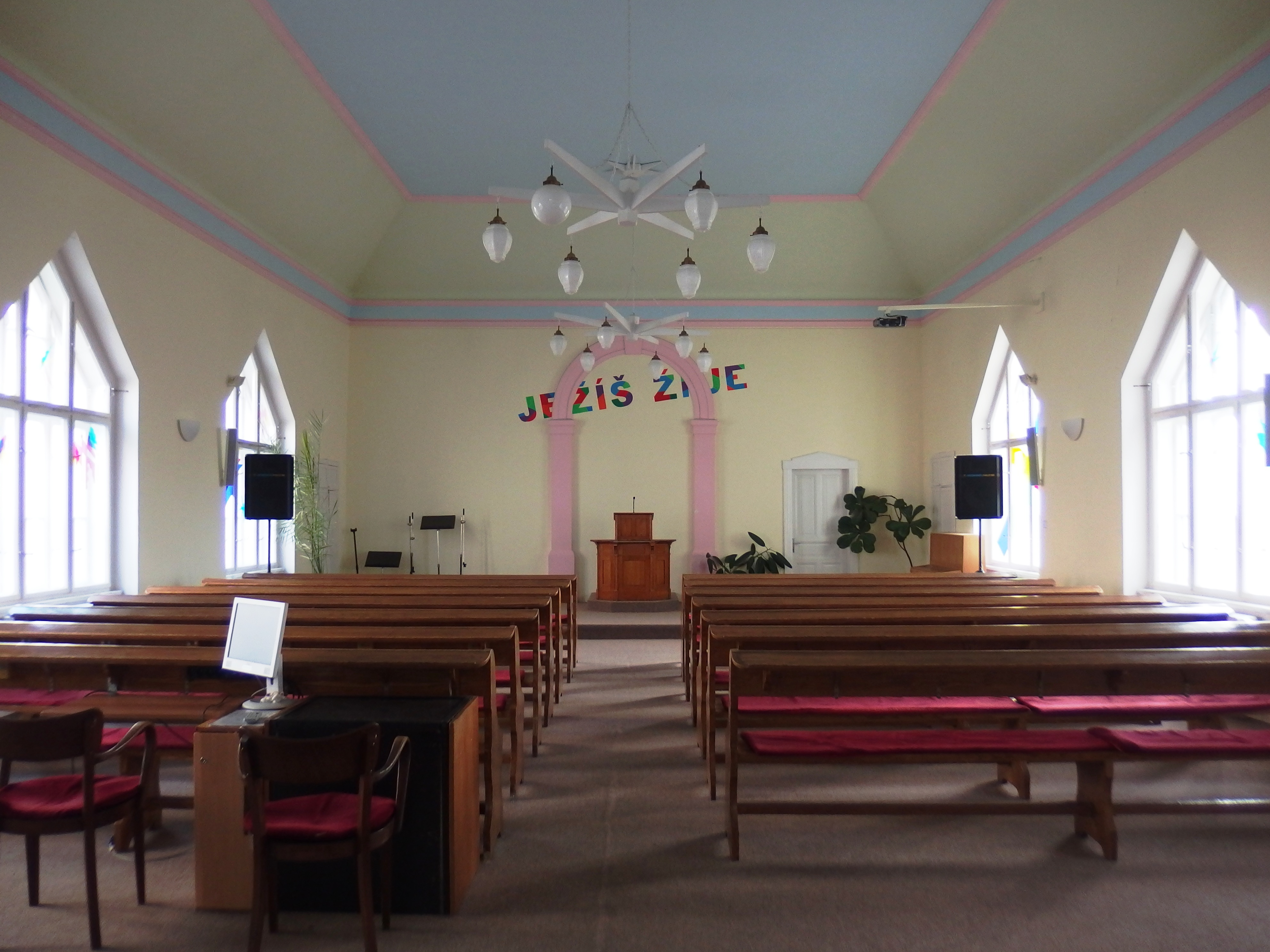 Prague-Strašnice, the Czech Republic. Vilová, a chapel of Methodist Church.